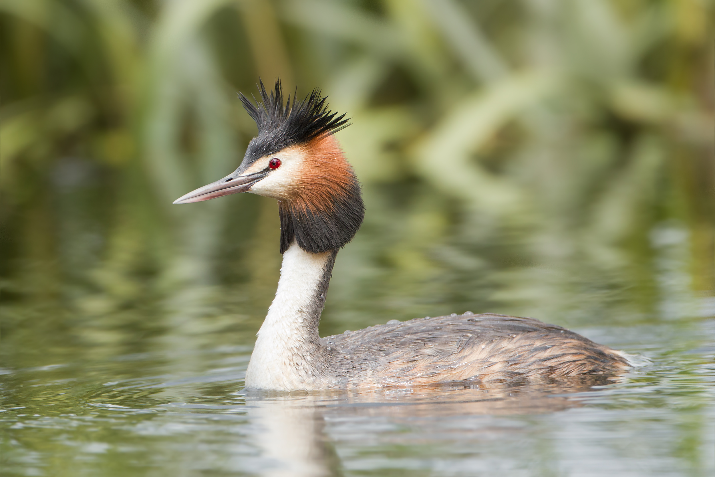 Great Crested Grebe (Podiceps cristatus), Lake Dulverton, Oatlands, Tasmania, Australia